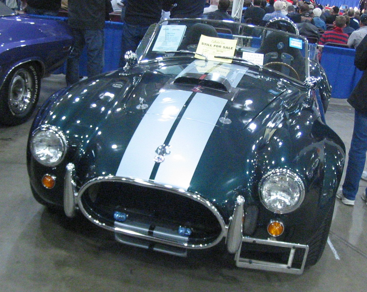 1965 AC Cobra photographed in Mississauga, Ontario, Canada at the Toronto Classic Car Auction of spring 2012.